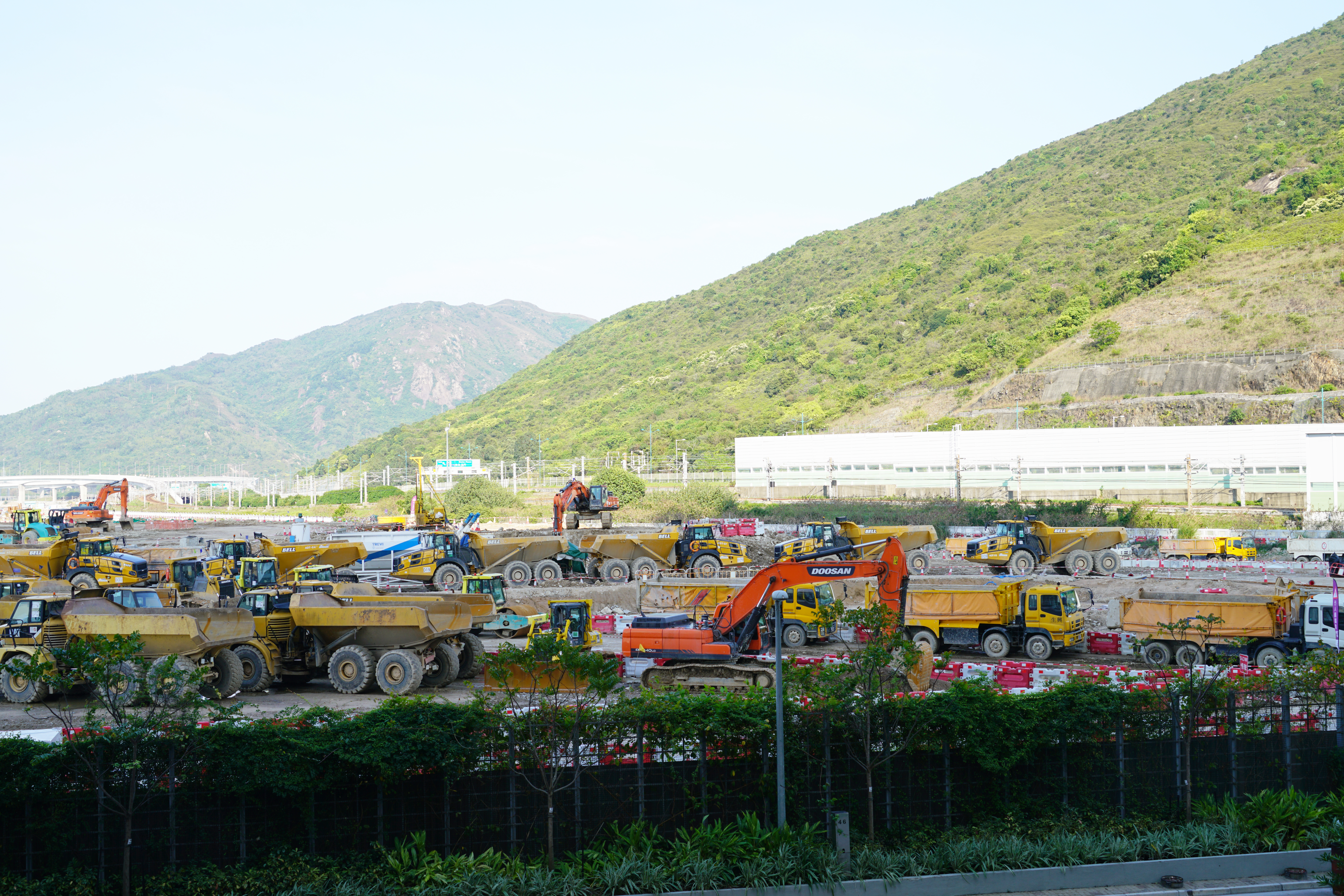 Tung Chung East Station, Hong Kong.